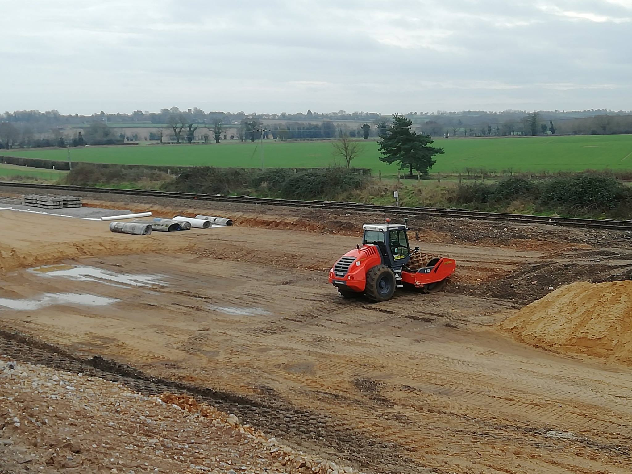 The former quarry area being cleared and levelled for the new rail yard near Kimberley. A section of the up formation embankment has been removed at this point in order to provide additional siding space.